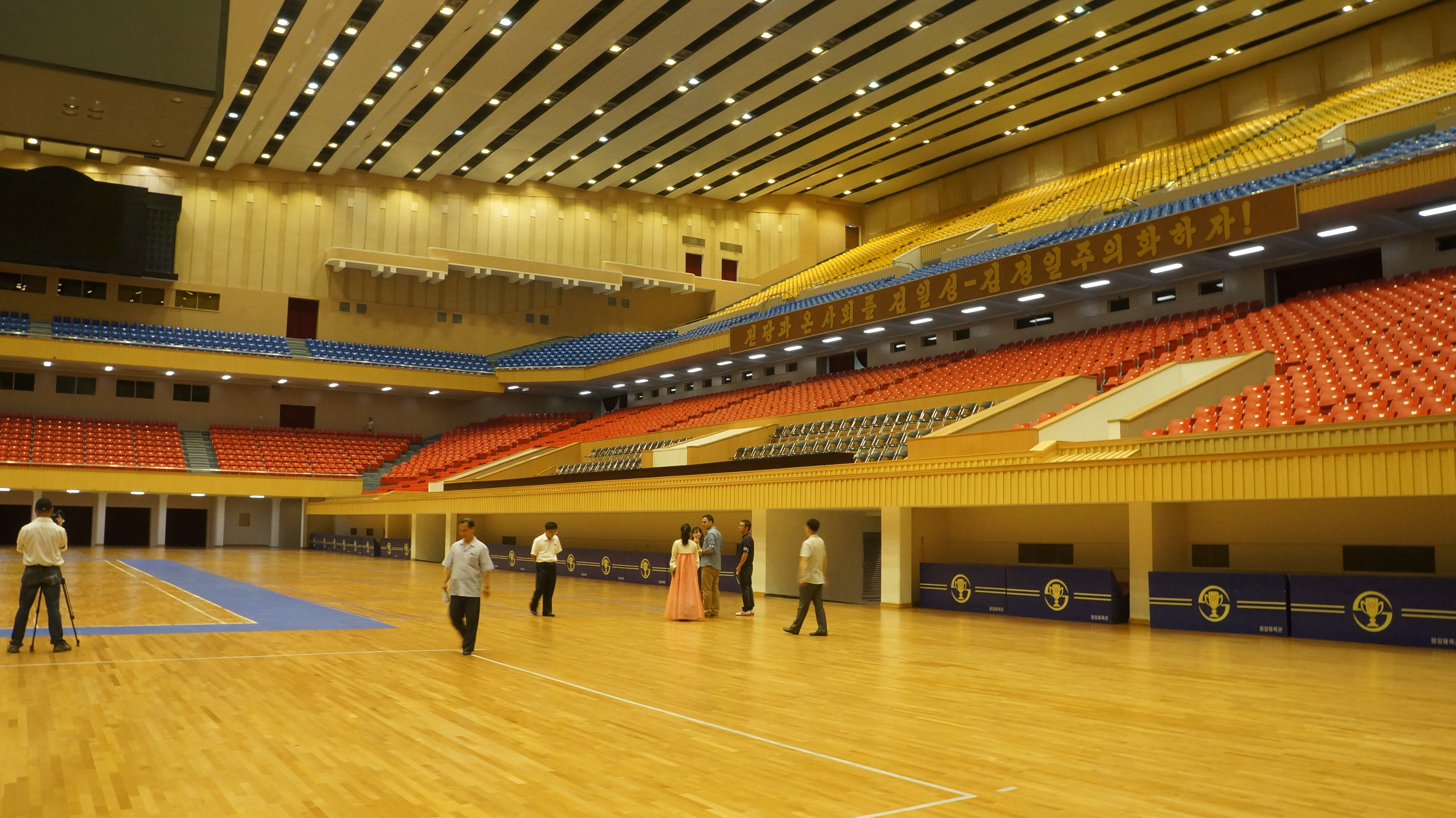 where the Dennis Rodman and former NBA players played a match in North Korea DPRK